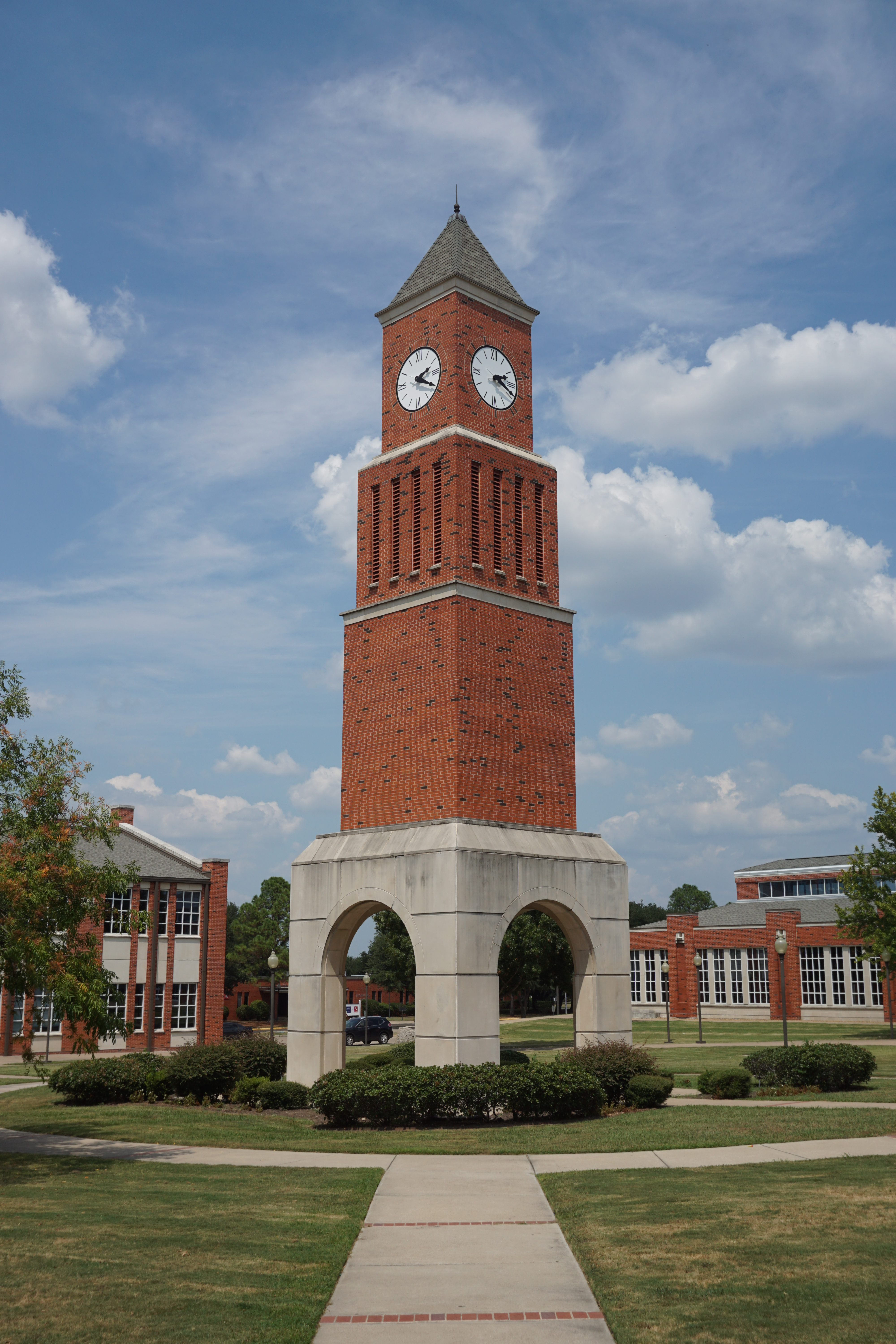 The Barracks Bunch Clock Tower on the campus of Navarro College in Corsicana, Texas (United States).